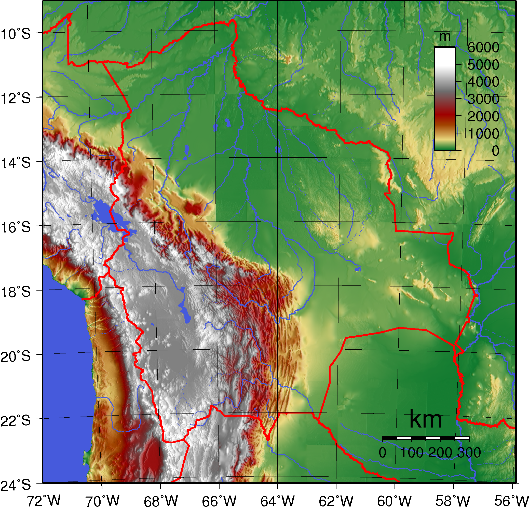 Topographic map of Bolivia. Created with GMT from public domain GLOBE data.